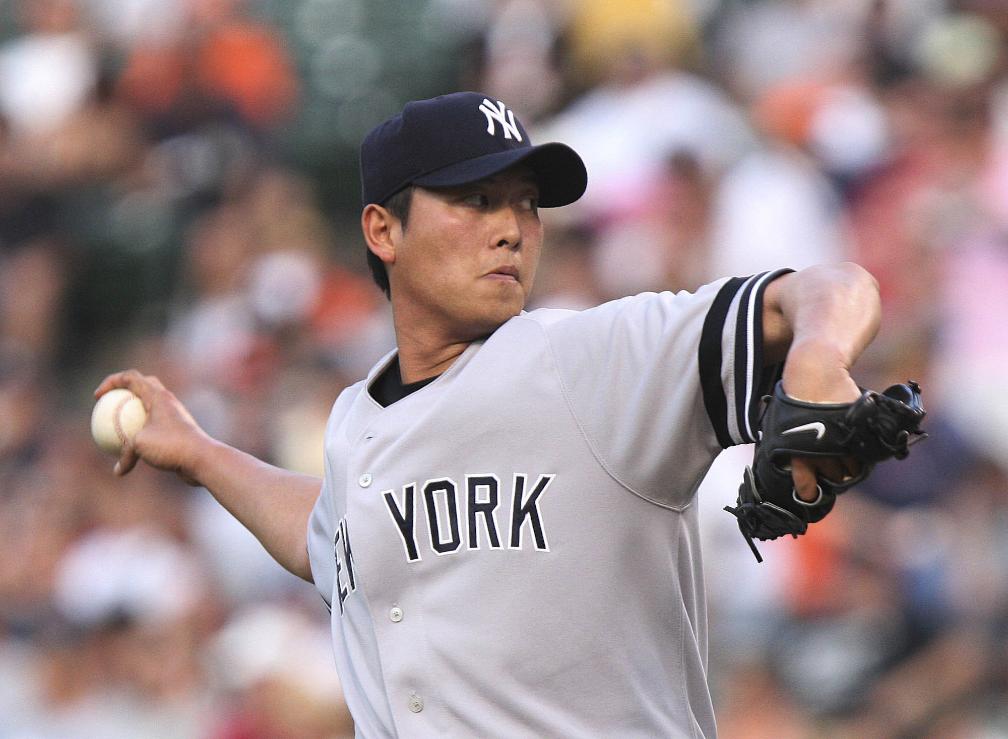 New York Yankees pitcher Chien-Ming Wang delivers against the Baltimore Orioles on Thursday, June 28, 2007 in Baltimore.